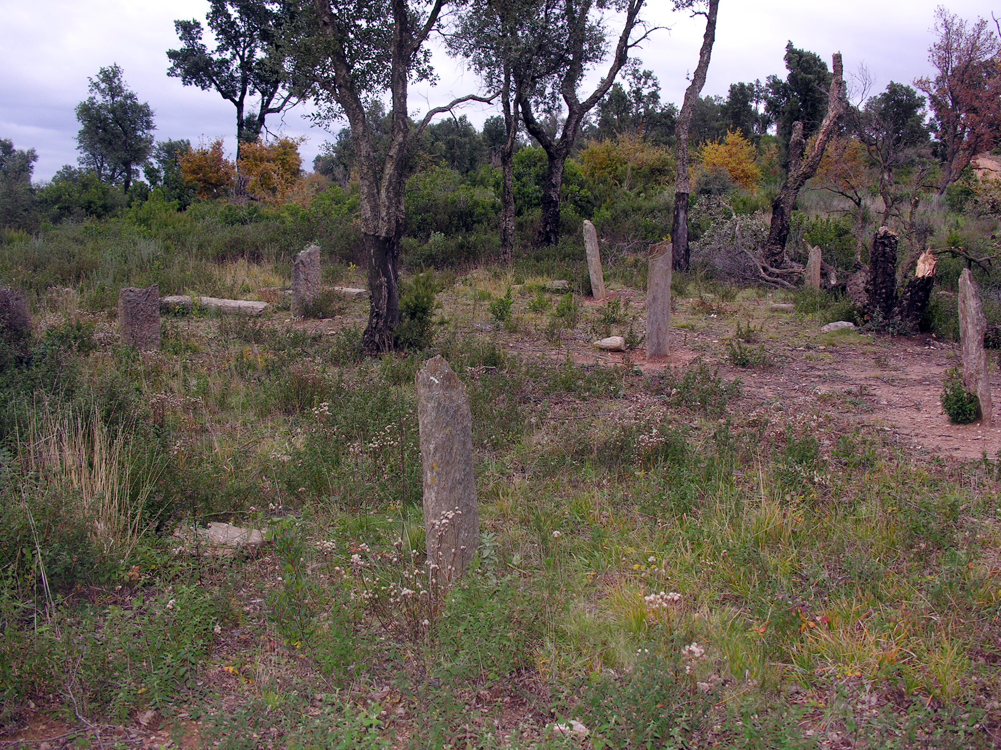 Les Arces-en-Provence : 9 Menhirs in "Les terriers"